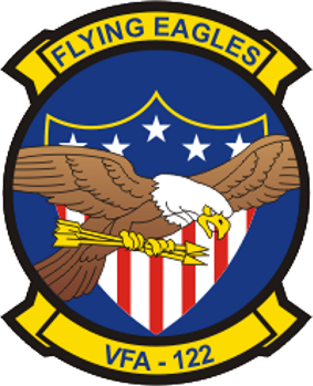 Insignia of the U.S. Navy Strike Fighter Squadron 122 (VFA-122) "Flying Eagles". The insignia was approved on 25 February 1999.